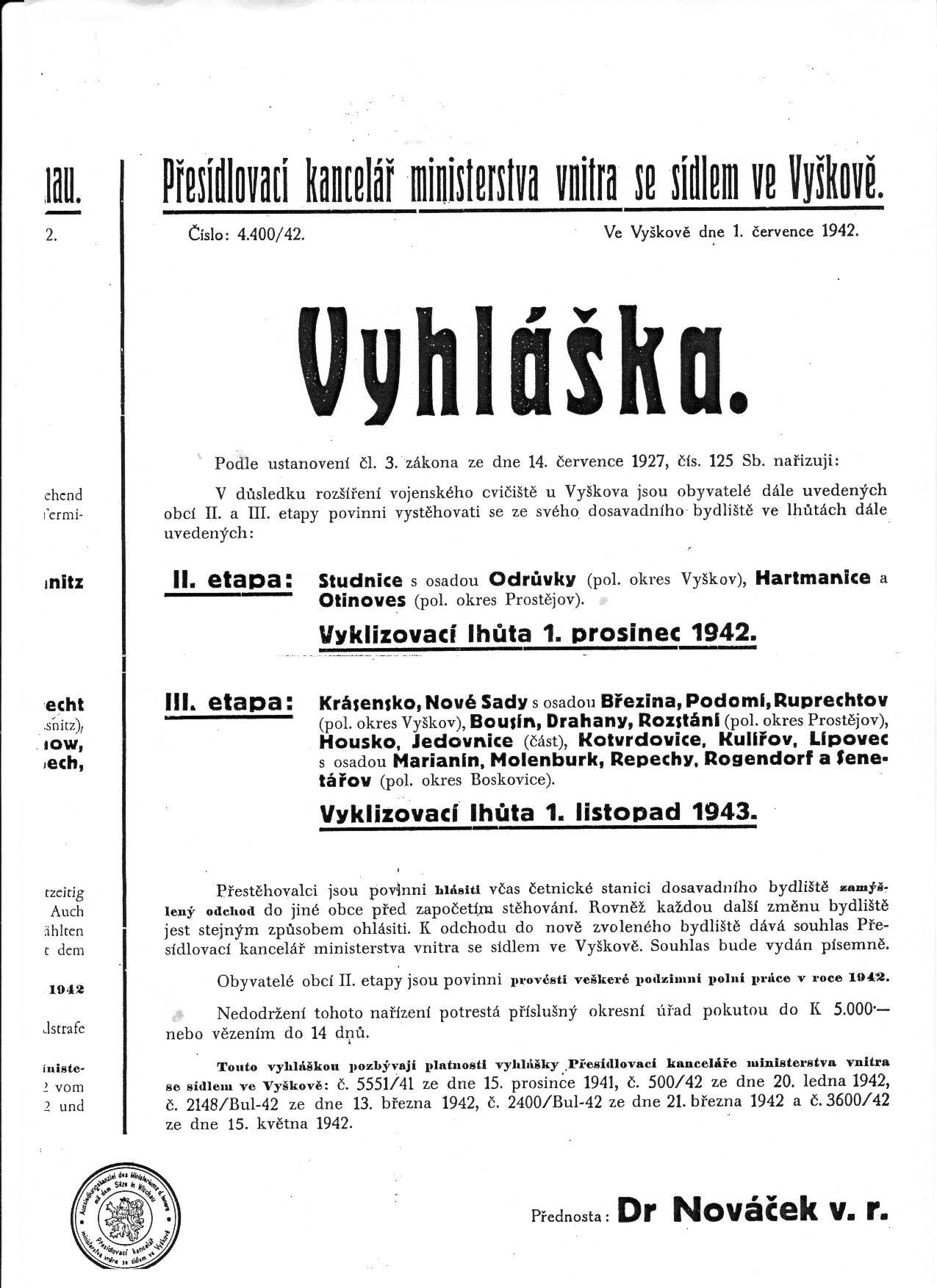 Decree on forced eviction 33 municipalities